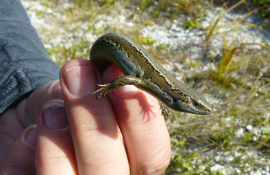 Chalky island skink by Erina Loe, DOC